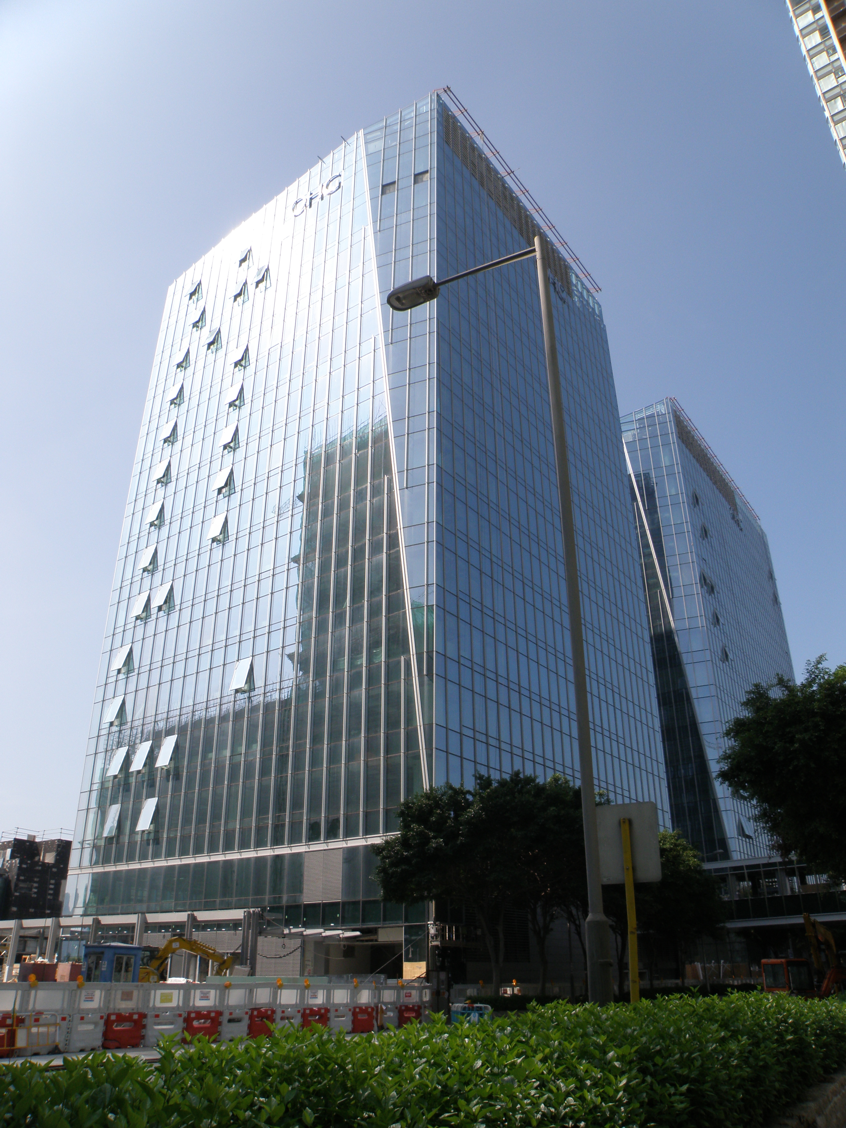 One Harbour Gate in Hung Hom, Hong Kong.